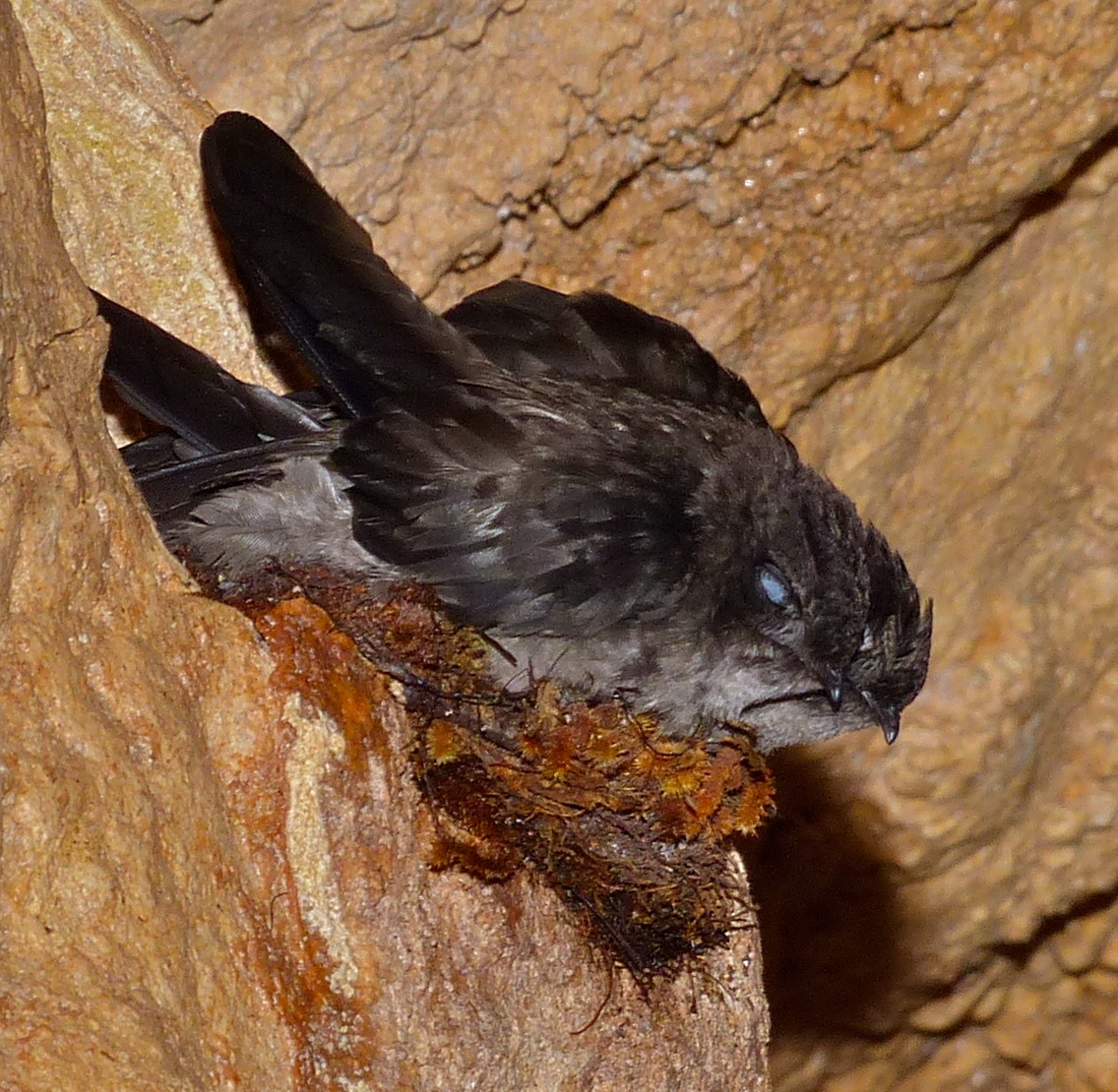 Mossy-nest Swiftlets on nest in Lagang Cave, Mulu NP, Sarawak, MALAYSIA Cropped version of Mossy-nest Swiftlets (Aerodramus salangana natunae) on nest (15593039405).jpg